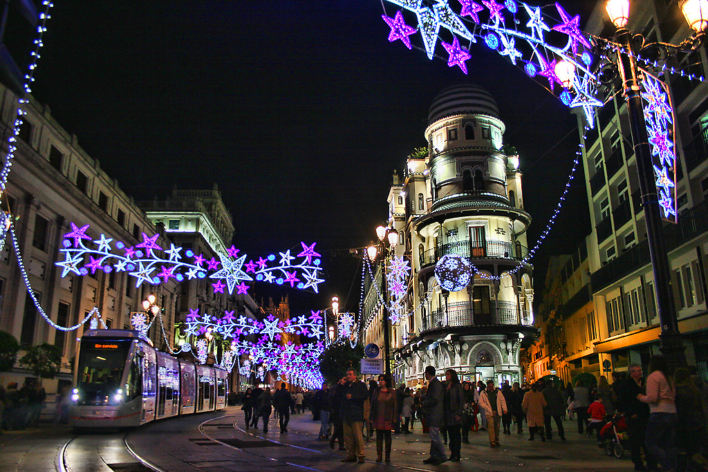 Seville city at Christmas night